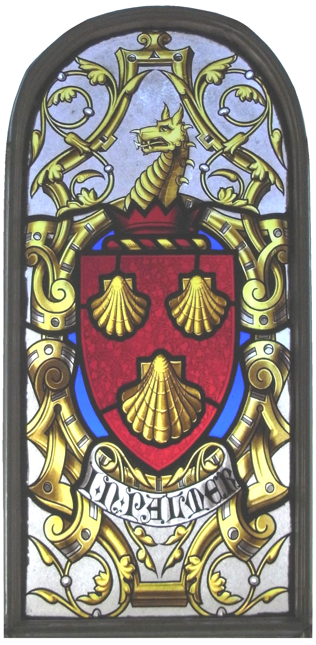 Stained glass in Palmer House, Great Torrington, showing arms of John Palmer (1708-1770): Gules, three escallops or, with crest: A wyvern's head and neck couped or, with inscription below: J N Palmer